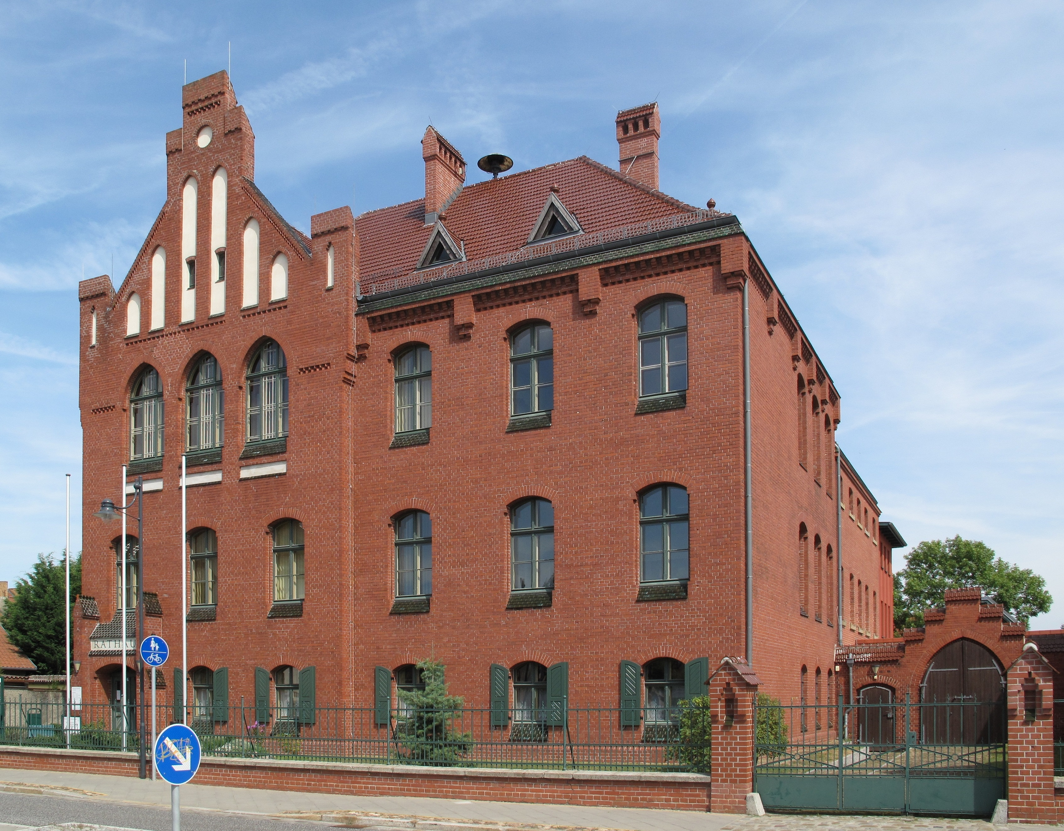 Listed, former „Neues Königliches Amtsgericht“ (german for: New Royal Amtsgericht), today the town hall, in Storkow. Built in 1896/97 by the town-builder Johannes Prömmel (1858–1941). Storkow is a town in the District Oder-Spree, Brandenburg, Germany.